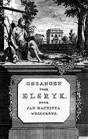 Front page of Jan Baptista Wellekens's Elsryksche Zangen (1705-1707).